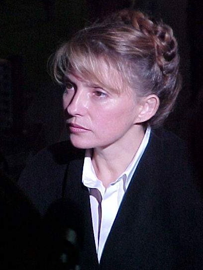 Portrait of Yulia Tymoshenko. 2002. Politician in Ukraine, activist of the "orange revolution" in november/december 2004